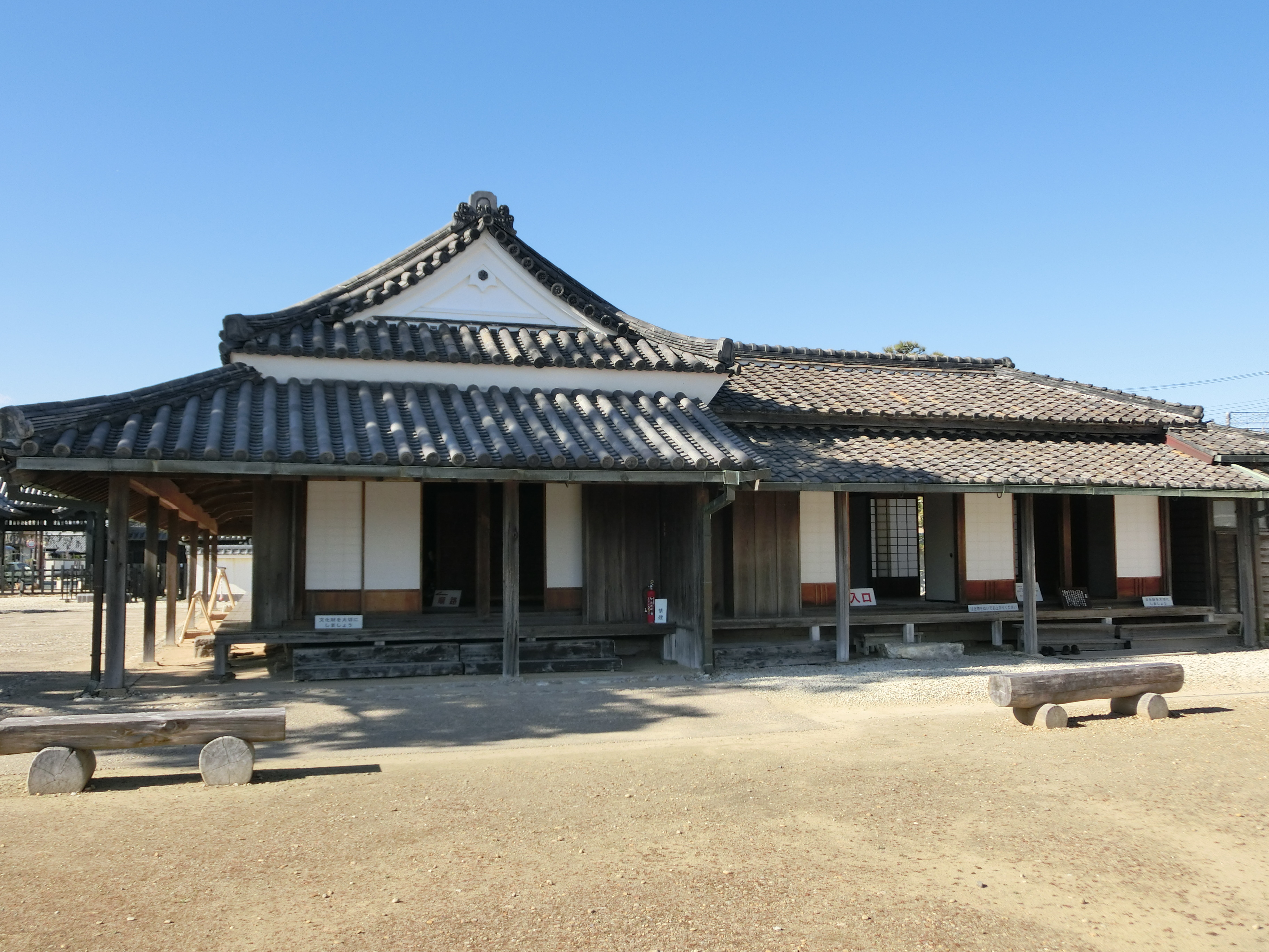 Arai no Seki